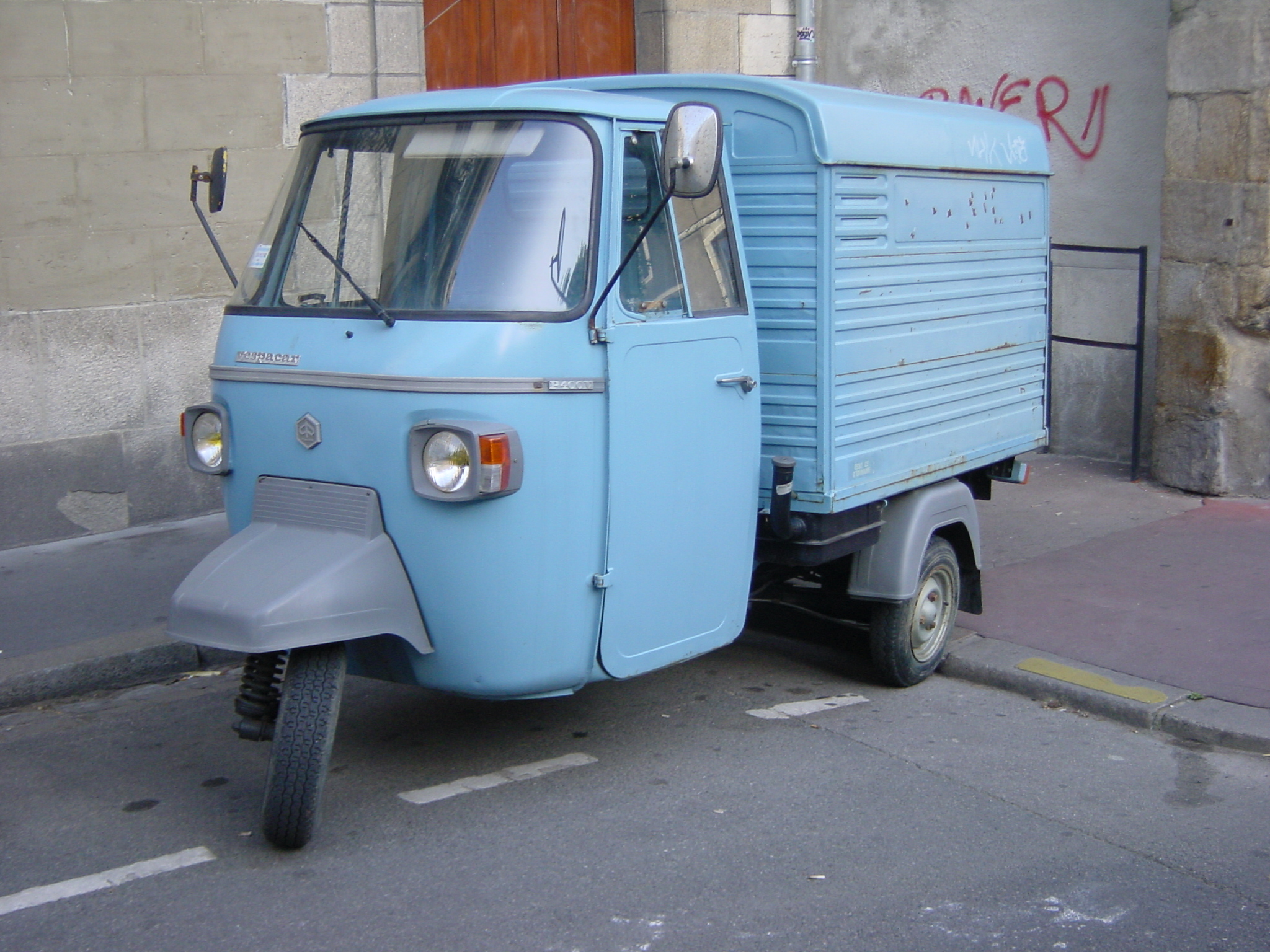 A Piaggio Vespacar APE P400V (aka MPF P400V).